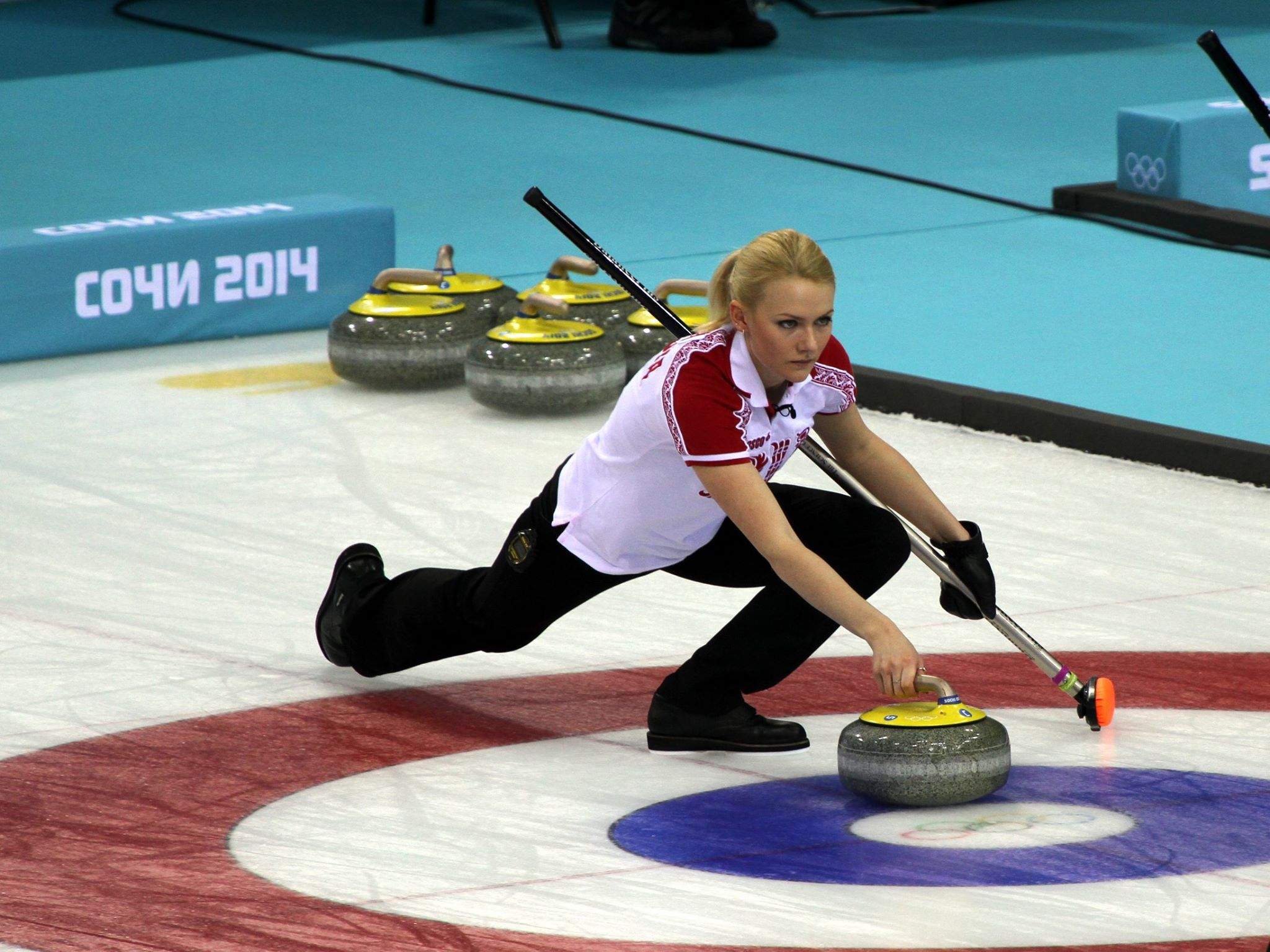 Women's curling at the 2014 Winter Olympics, Russia